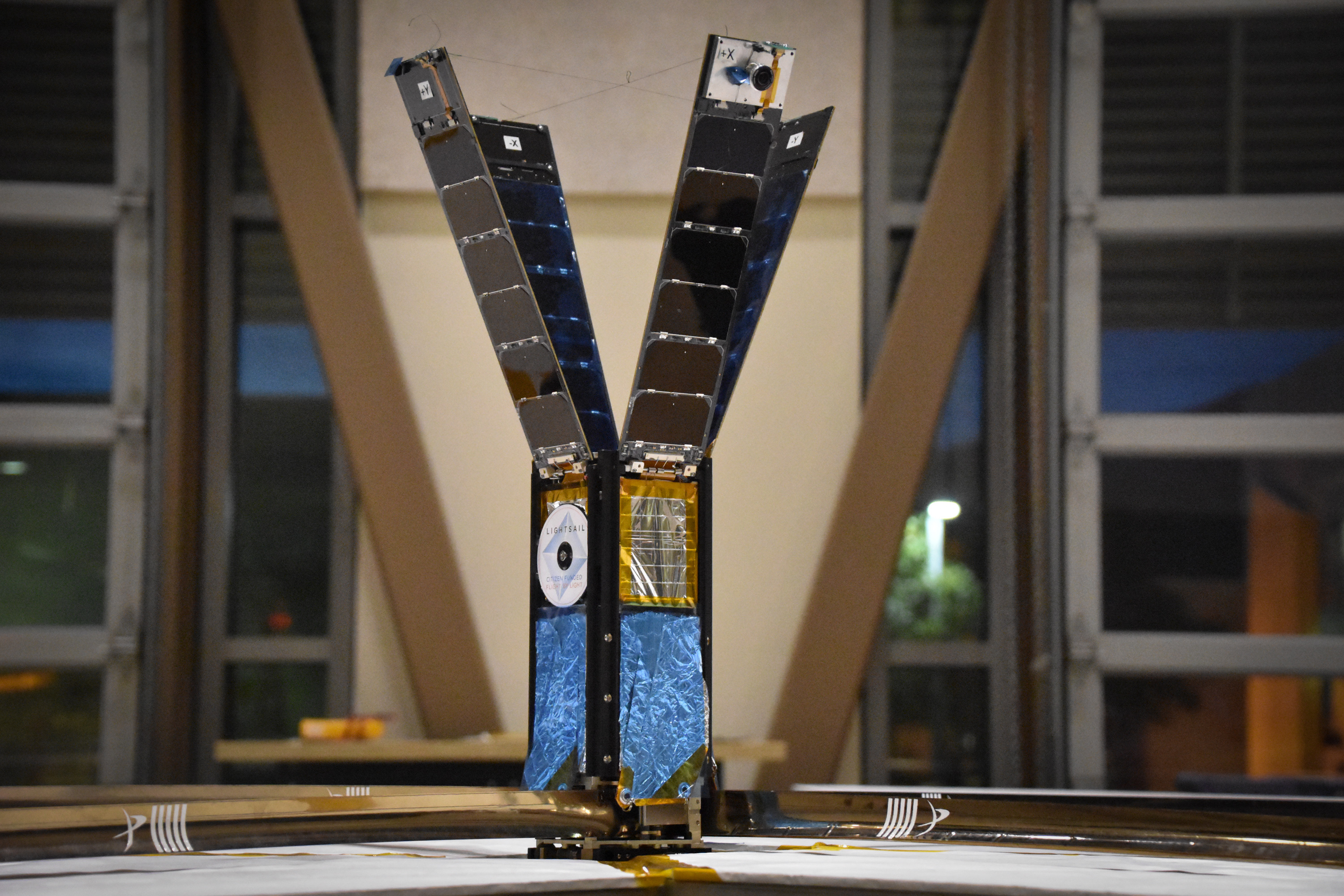 LightSail 2, a solar sailing cubesat by The Planetary Society, rests after testing its sail deployment system at Cal Poly San Luis Obispo, on Dec 6, 2016. LightSail uses four, 4-meter metallic booms that unwind from the spacecraft’s lower section to deploy its solar sail.